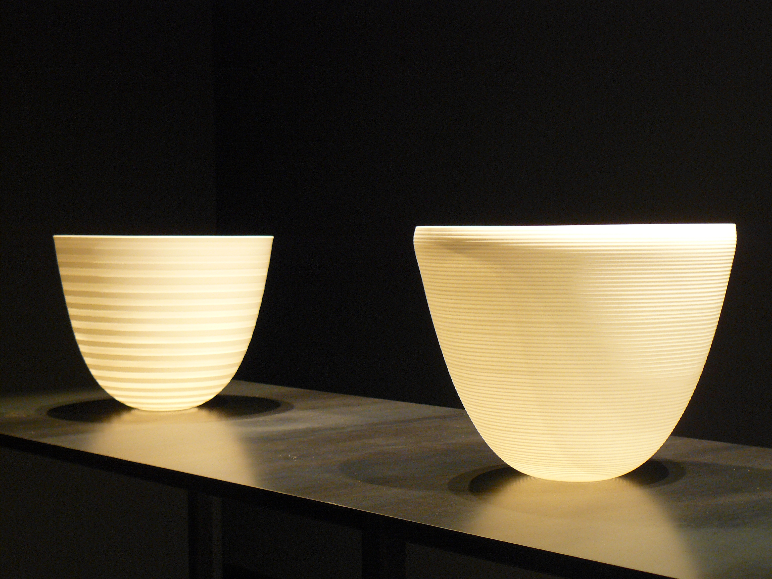 Ceramic Art: Arnold Annen. Picture taken in Musée Ariane in Geneva.